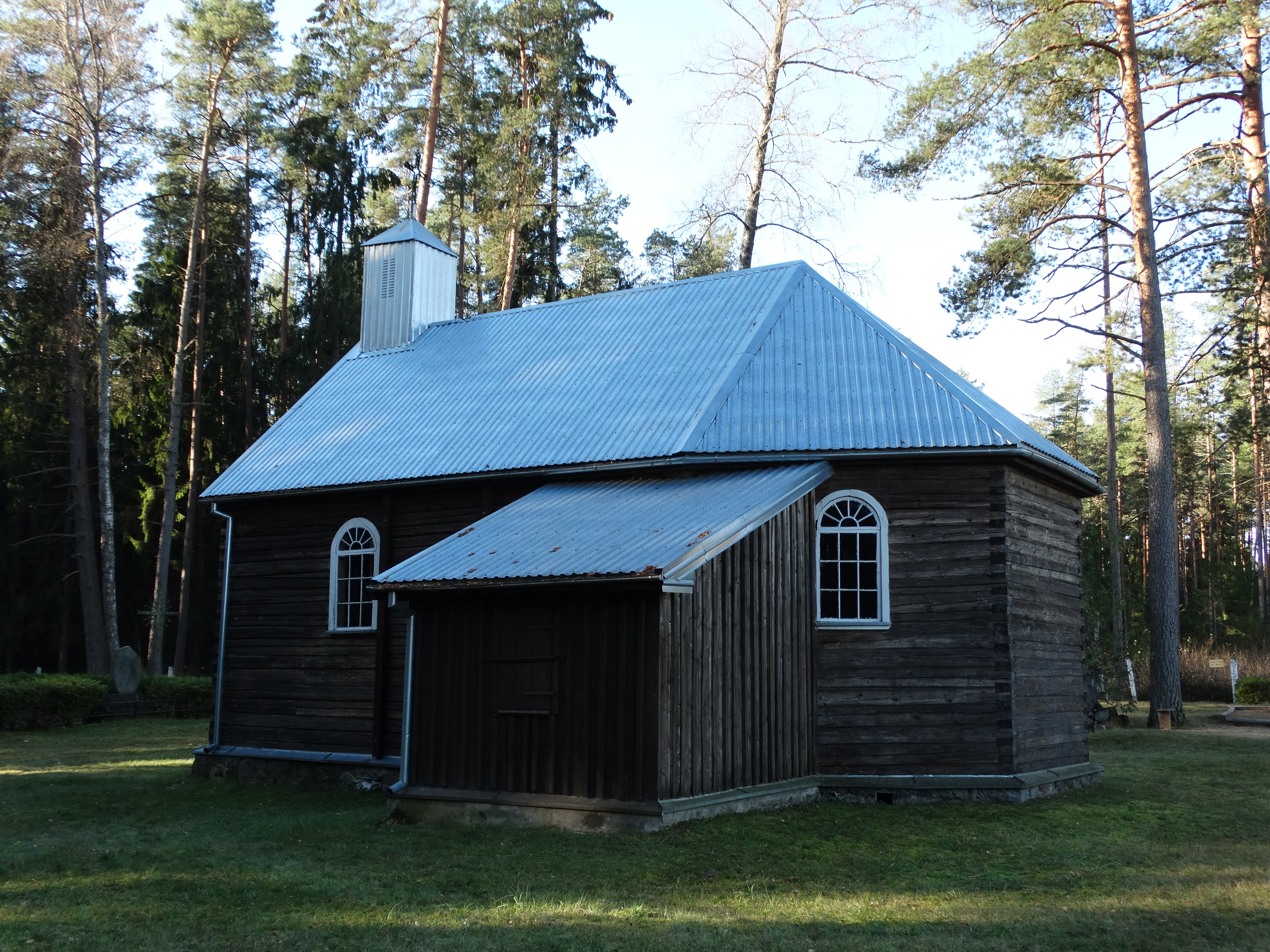 Chapel in Bikiškiai (by Daukšėnai), Panevėžys district, Lithuania